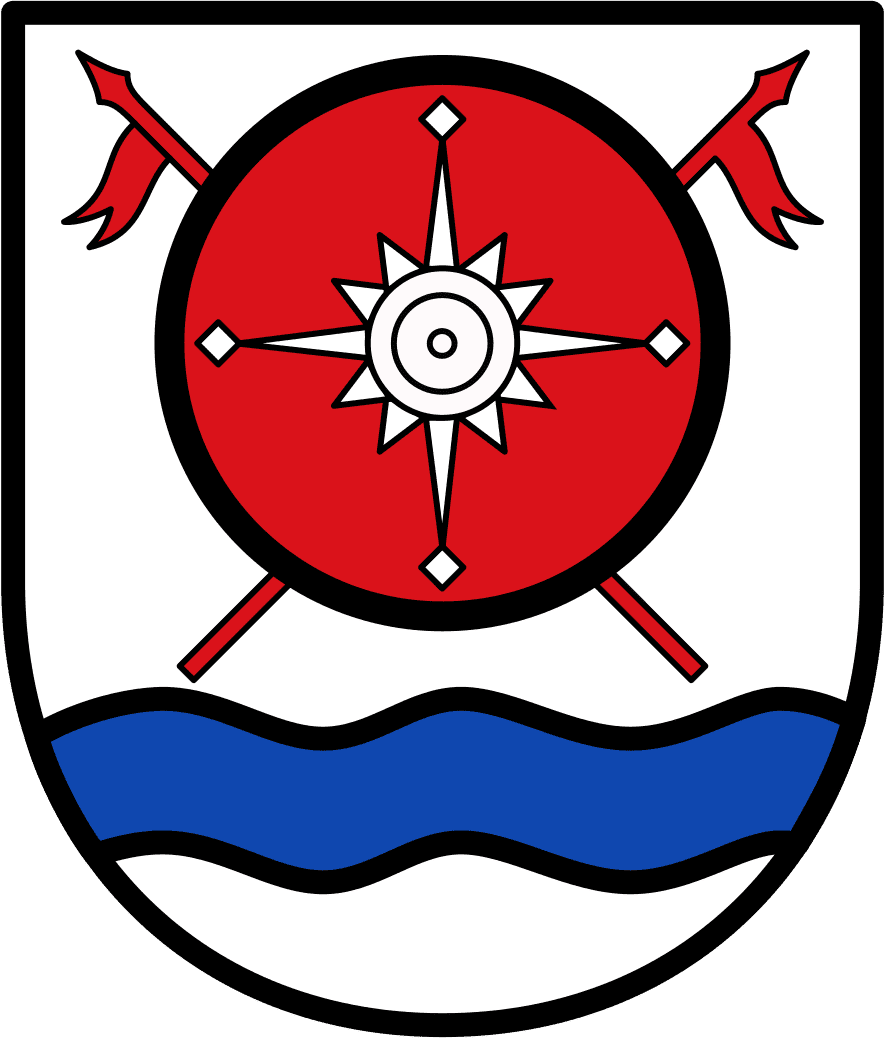 Converted into PNG format, slightly modified and transparency added. Allowed by Mr. T. Douwes at the 11. april 2006 to use it for wikipedia. He is employee at the commune Westoverledingen.